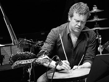 Helge Andreas Norbakken percussionist performing in Aarhus Denmark 2013